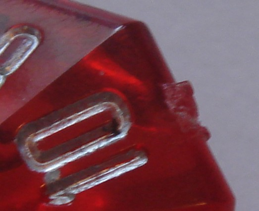 The production blemish on a 16-sided die from Gamescience.